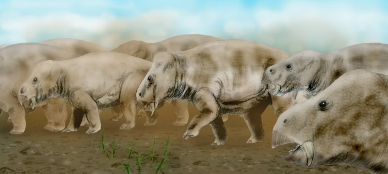 Placerias hesternus, a dicynodont from the Late Triassic of North America. Digital.